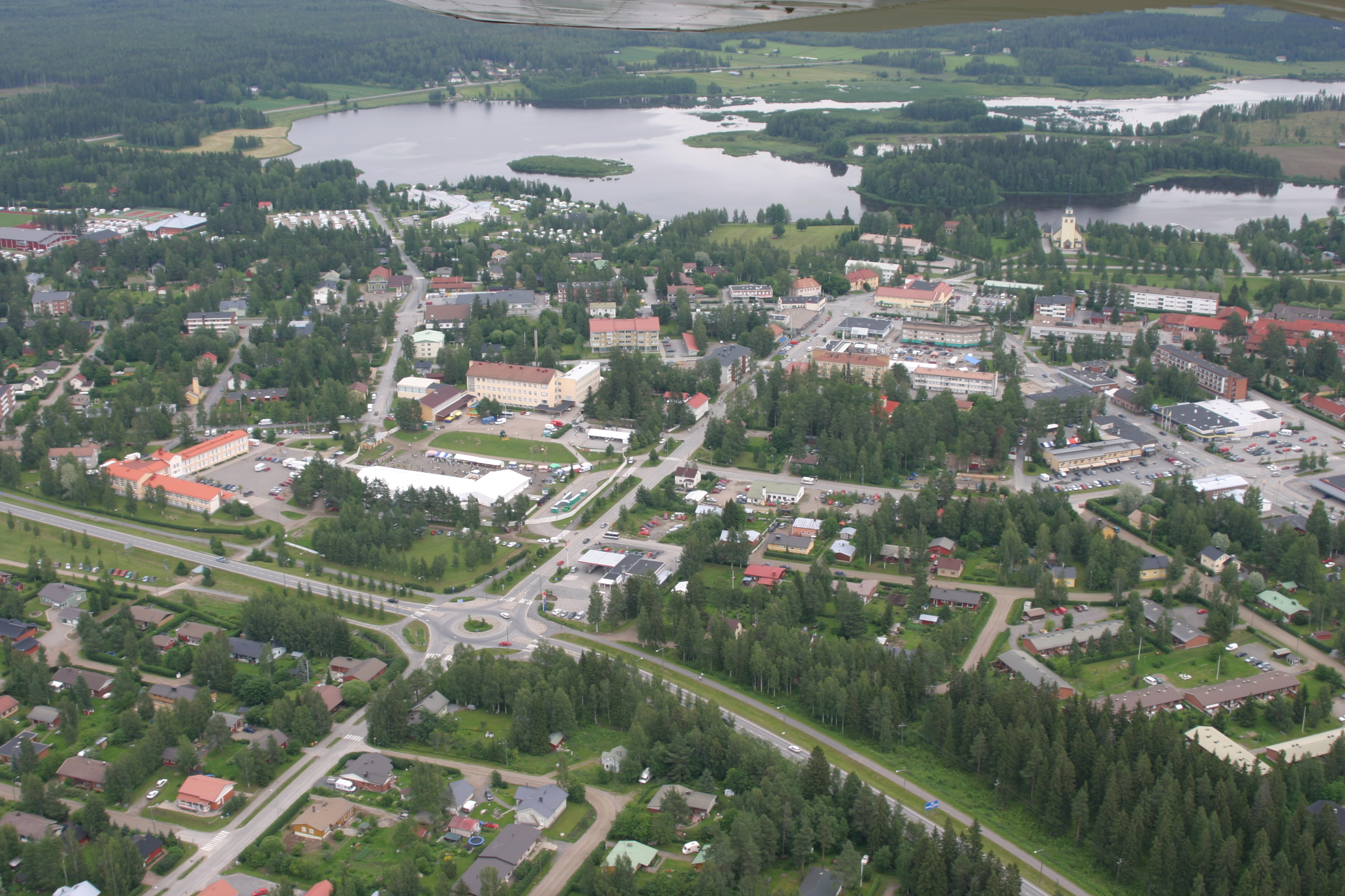 Aerial photograph of Kiuruvesi, Finland in summer 2007